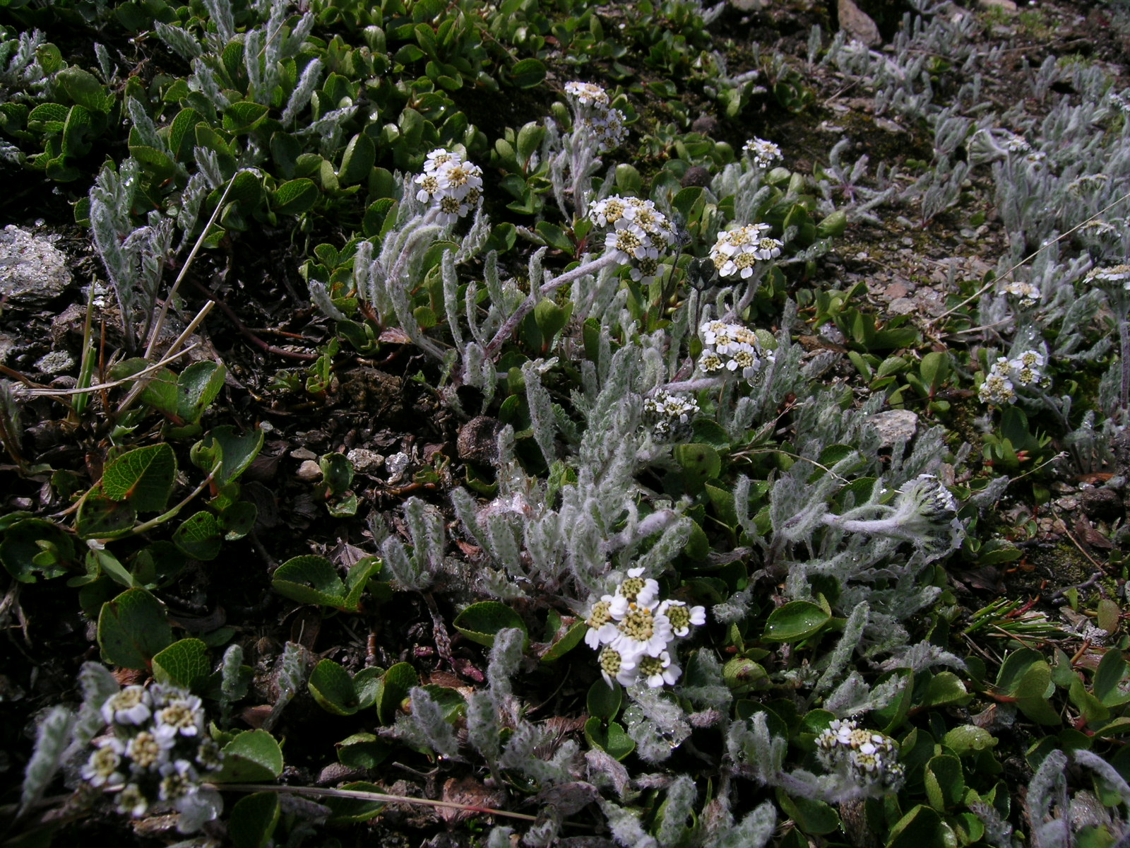 Achillea nana Zermatt, Riffelberg (Kanton Wallis, Switzerland), 2500 m Author: Roland Teuscher – own photograph Date: 3.08.06